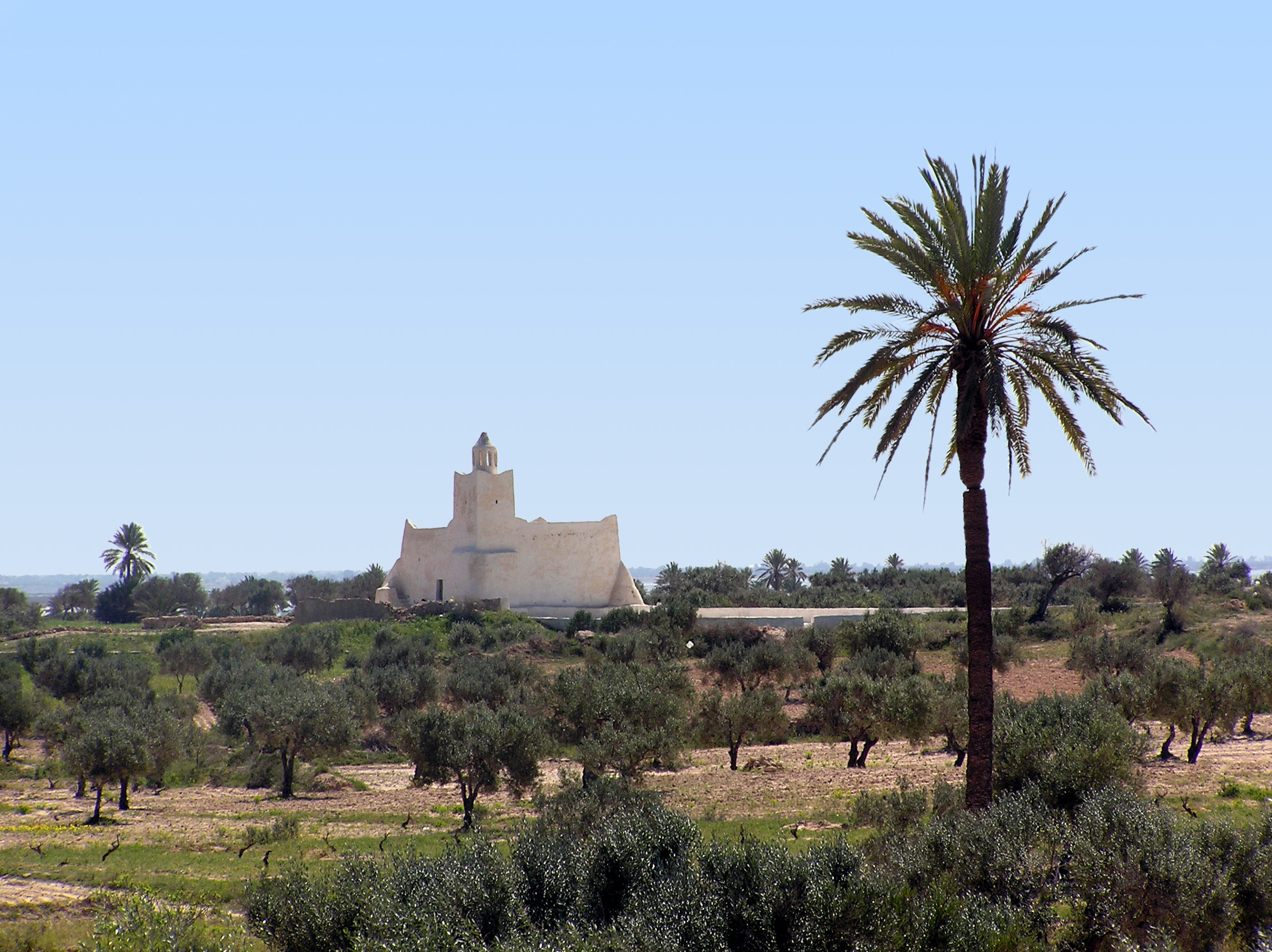 Somewhere near Bedouine, Djerba, Tunisia.